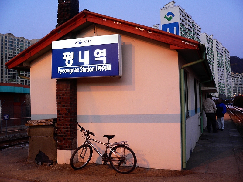 KORAIL Gyeongchun Line Pyeongnae Station